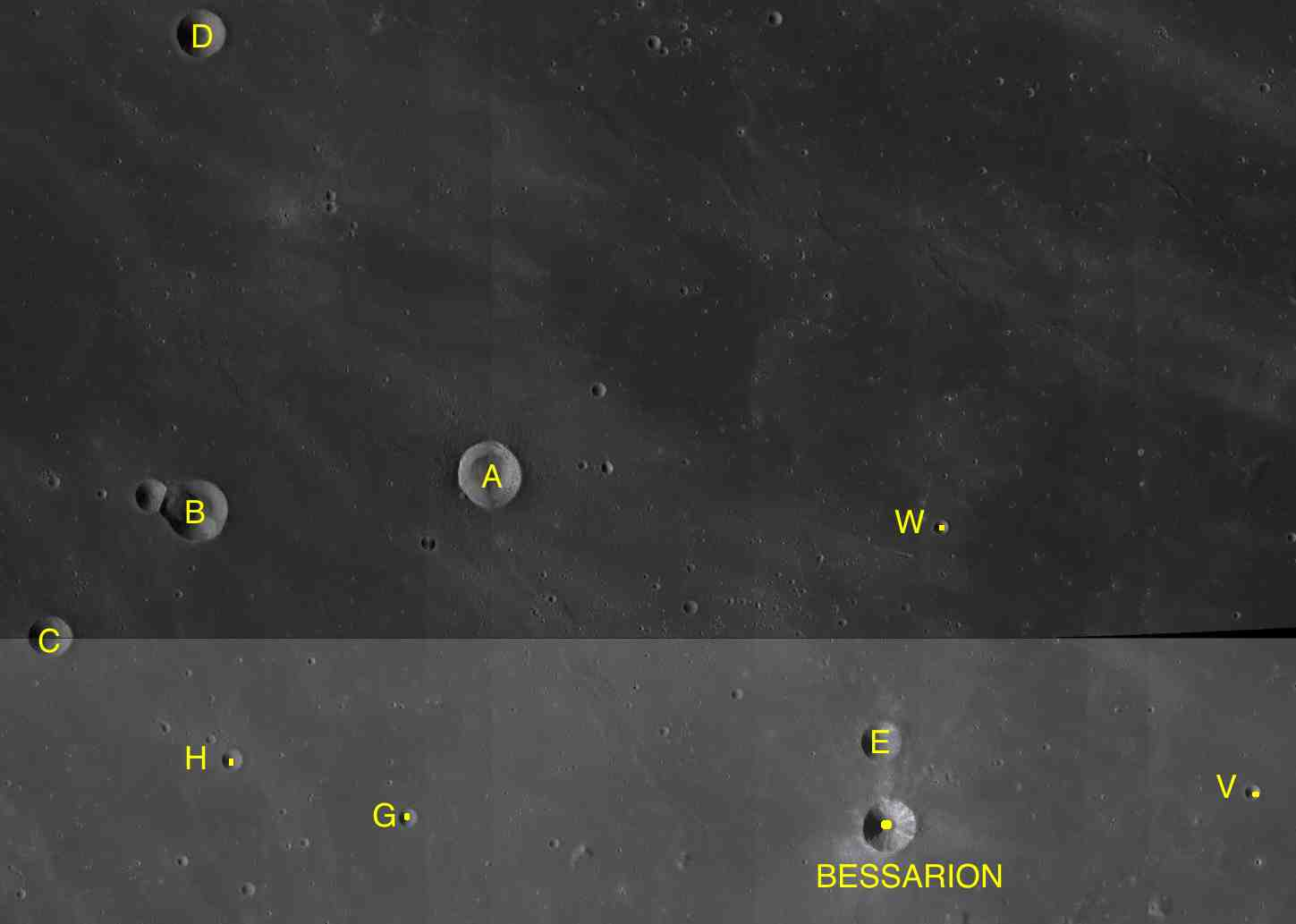 Parts of the charts LAC-39 and LAC-57 used for the presentation